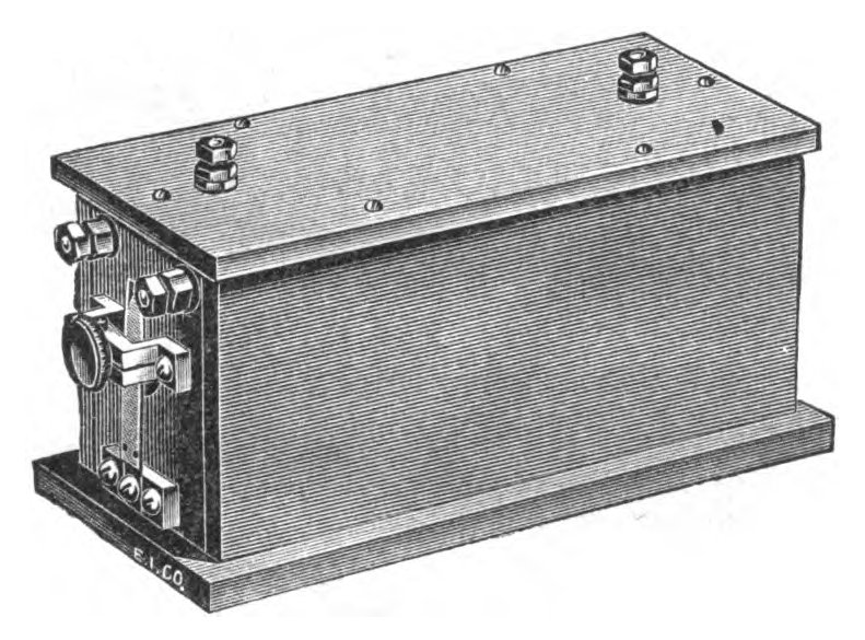 An induction coil used for ignition in early automobiles such as the Model T in the early 20th century, and also in high voltage devices such as x-ray machines and spark-gap radio transmitters. It consists of a step-up transformer with a primary with relatively few turns, powered by the car's battery, and a secondary with many turns of fine wire which produces a high voltage in the range of 10,000 - 20,000 V at the terminals on top, for the car's spark plug. To operate the transformer on DC, a vibrating contact called an "interrupter" or "trembler" (visible at left) is used to repeatedly break the current from the battery, creating the flux changes needed for induction. It is located at the end of the transformer's iron core. The current in the primary creates a magnetic field in the core which attracts the iron armature, opening the contacts and interrupting the primary current. The magnetic field then collapses, creating a pulse of high voltage in the secondary coil, and the contact springs closed again. This cycle is repeated 20-40 times per second.